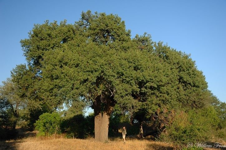 Schotia brachypetala Sond. - NW of Alldays on Limpopo River, Northern Transvaal, South Africa